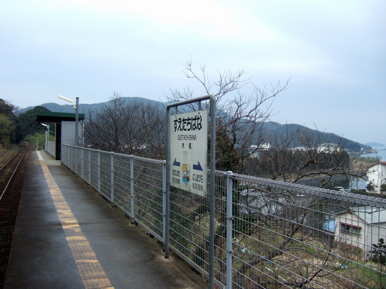 松浦鉄道すえたちばな駅（MR Suetachibana Station）